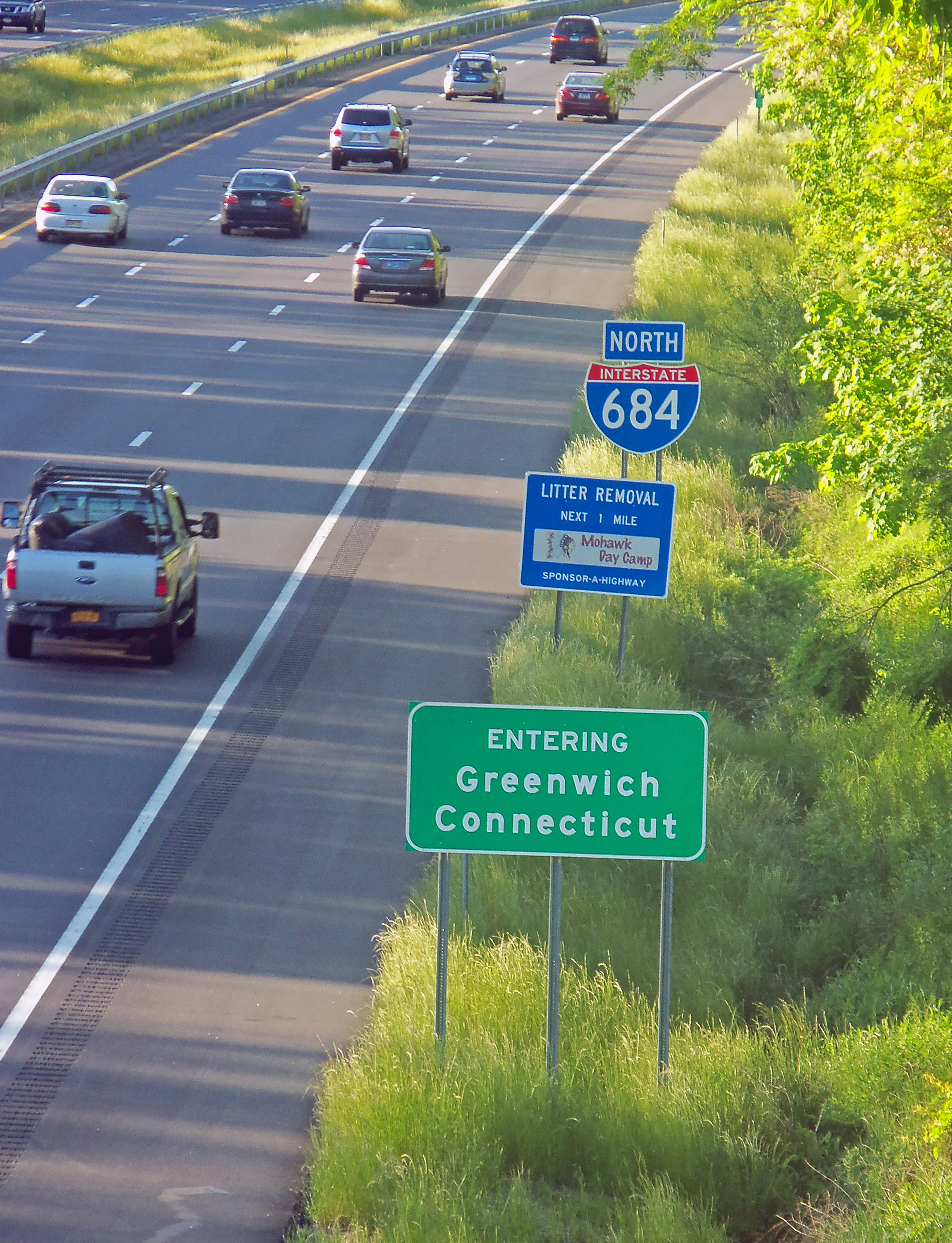 Signs along northbound Interstate 684 at the beginning of a short section that crosses the western tip of Connecticut (the highway is otherwise in New York) photographed from the NY 120 overpass.